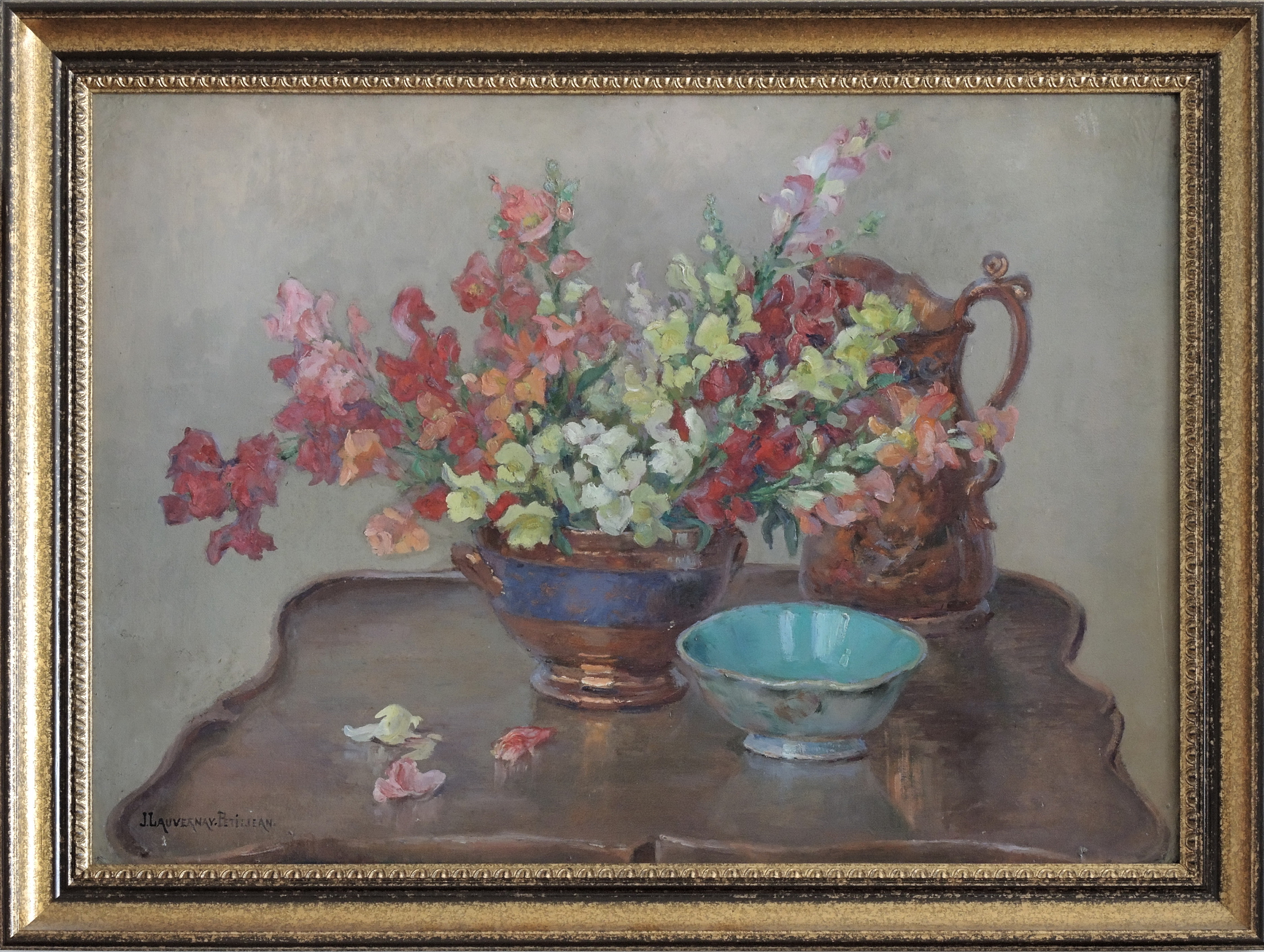 Still life oil painting